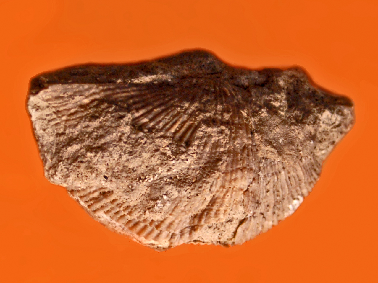 Fossil of Neospirifer ravana from Greenland, on display at Gallery of Paleontology and Comparative Anatomy, Paris.